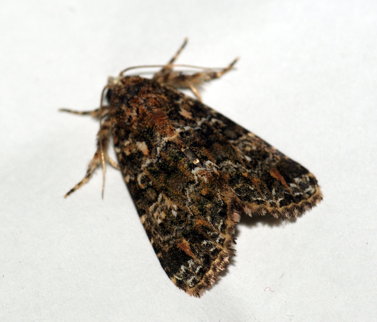 Spain, Nerja - 9w Camping Lantern + 3x 4w UV banker's and a white sheet